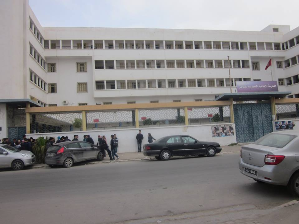 the school from outside